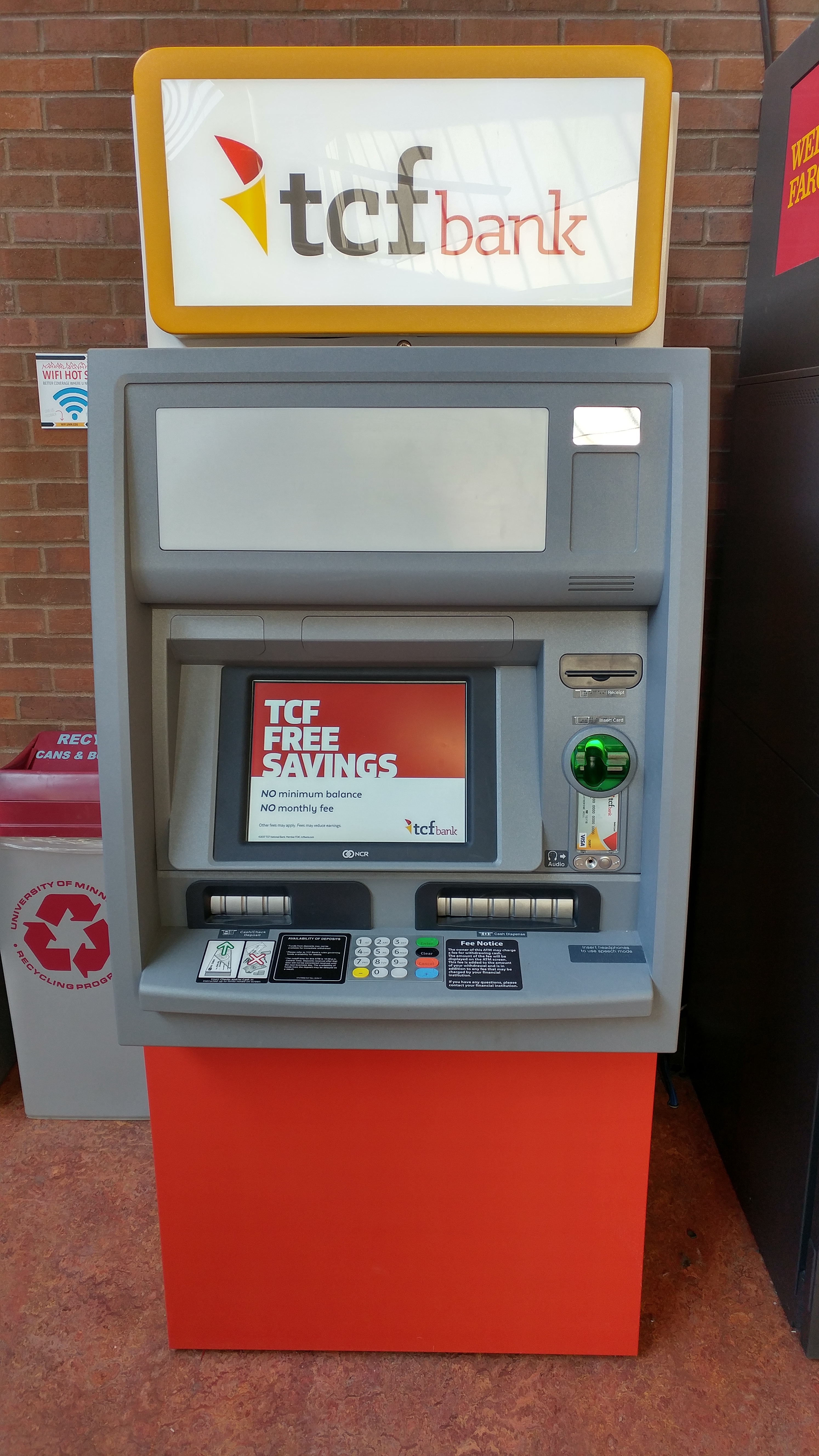 A tcf bank ATM machine